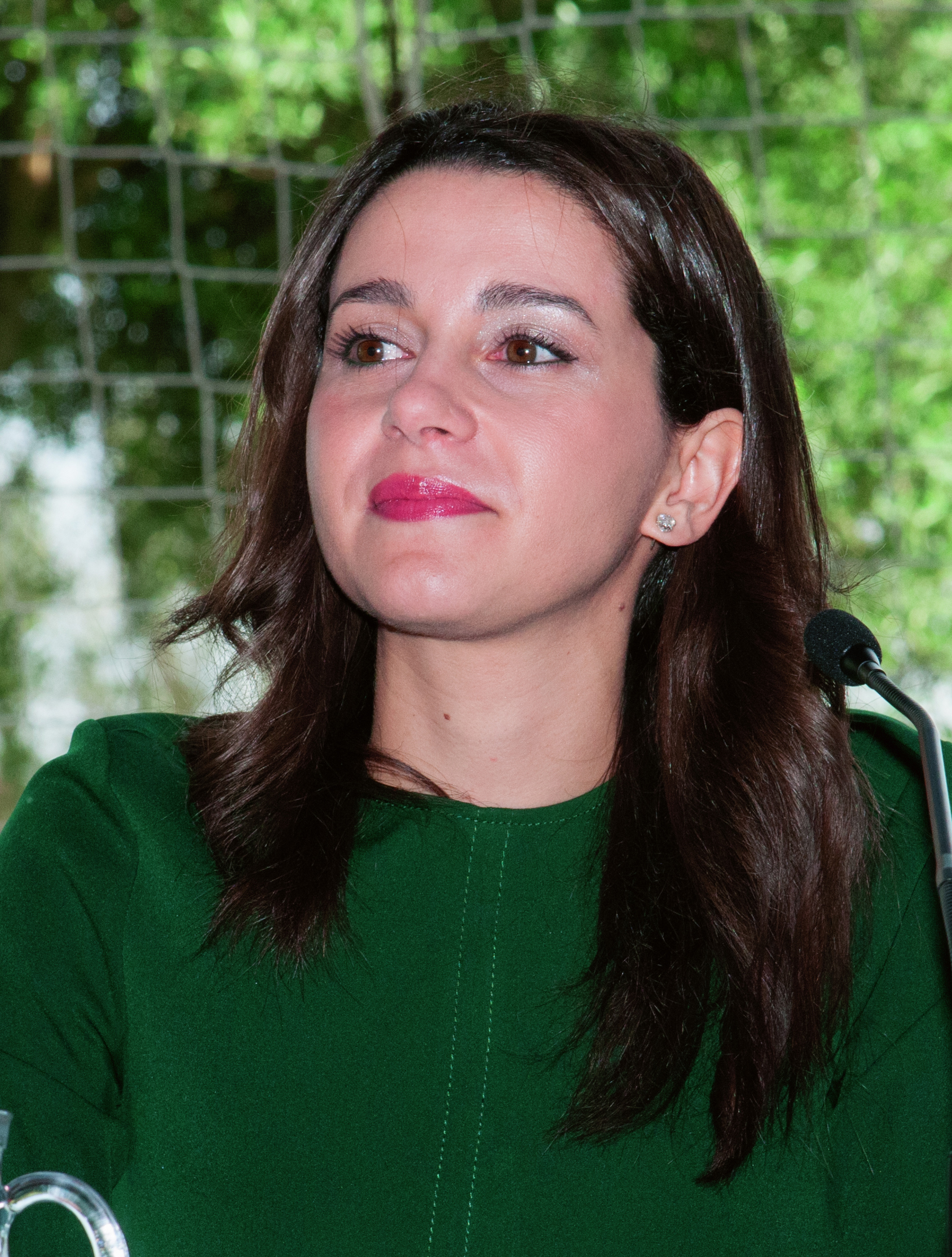 Inés Arrimadas at Pablo de Olavide University in Seville, Spain, in May 2017.